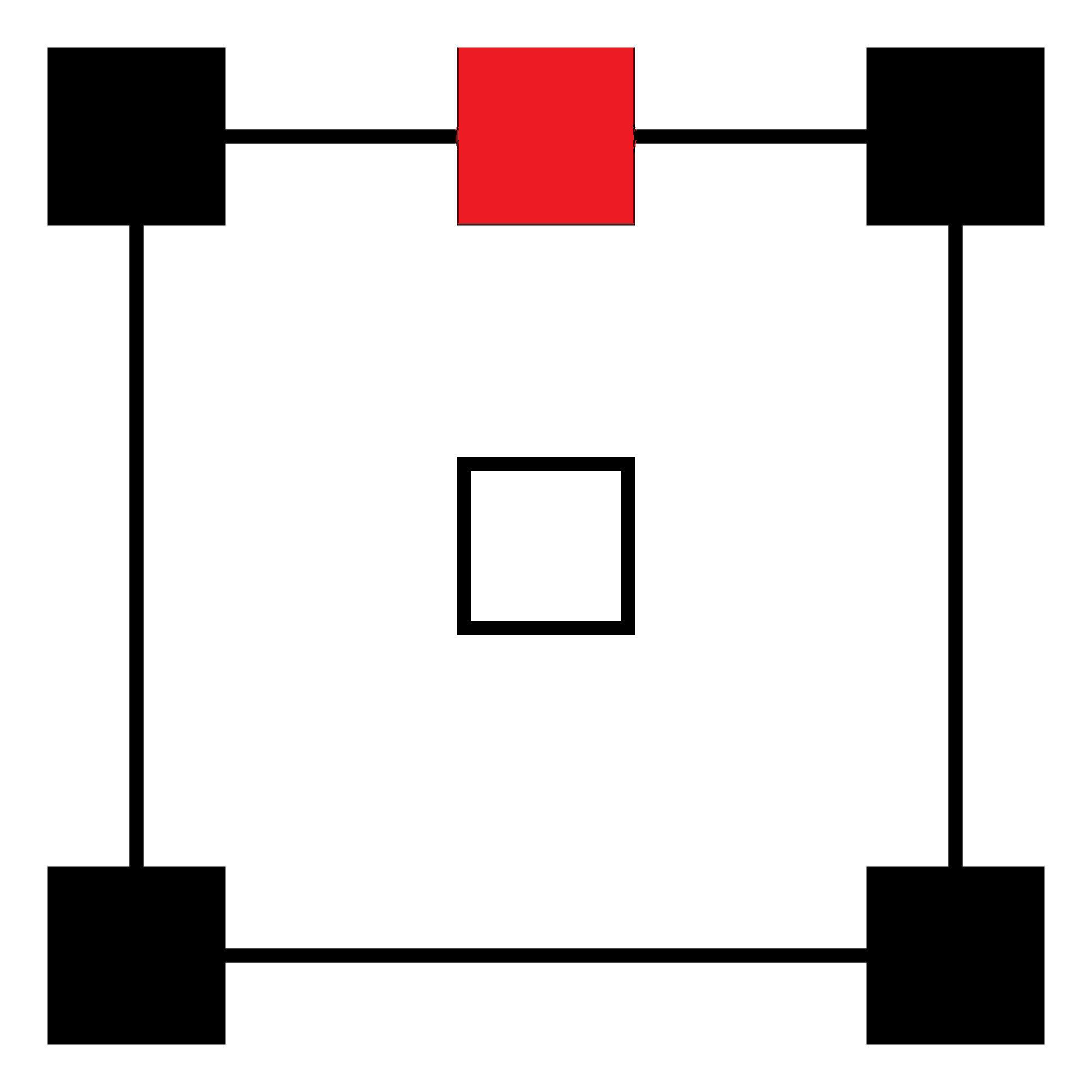 Center channel illustrated in red 5.1 speaker diagram